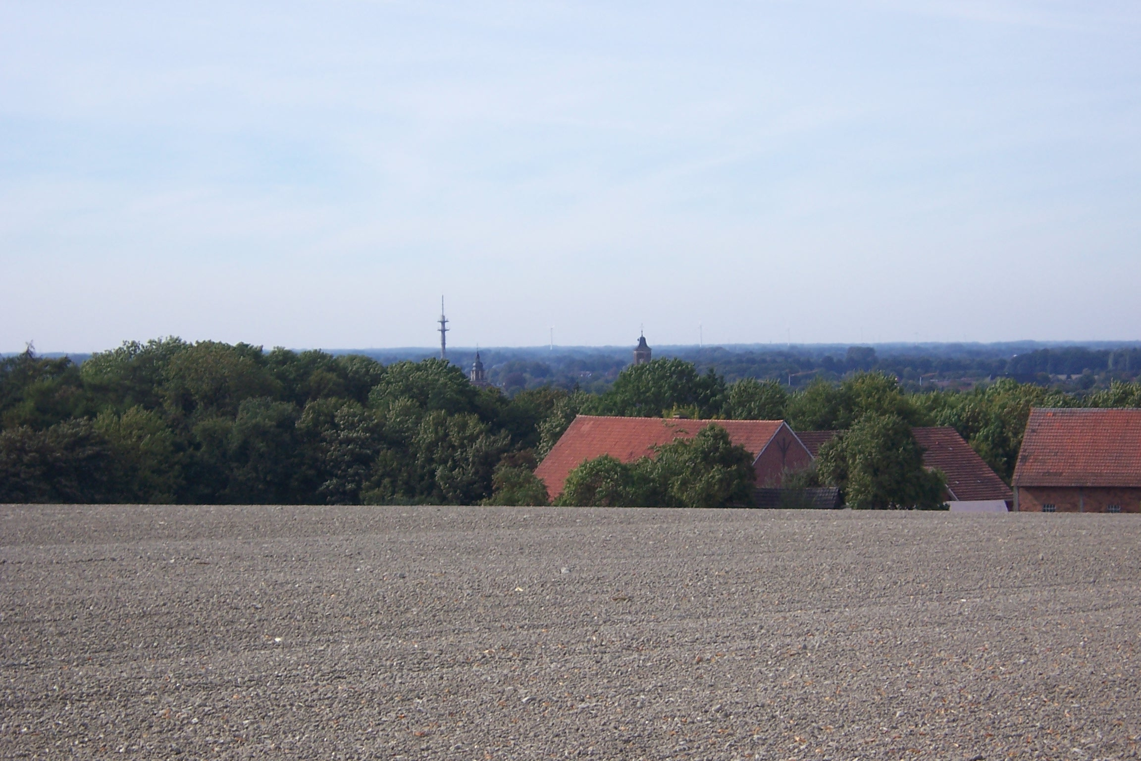 View to Coesfeld´s church towers: left the Jesuit church, right St. Lambert (of Maastricht) (NRW, Germany) from the "Dreilindenhöhe" (meaning "three lime-tree´s hill").